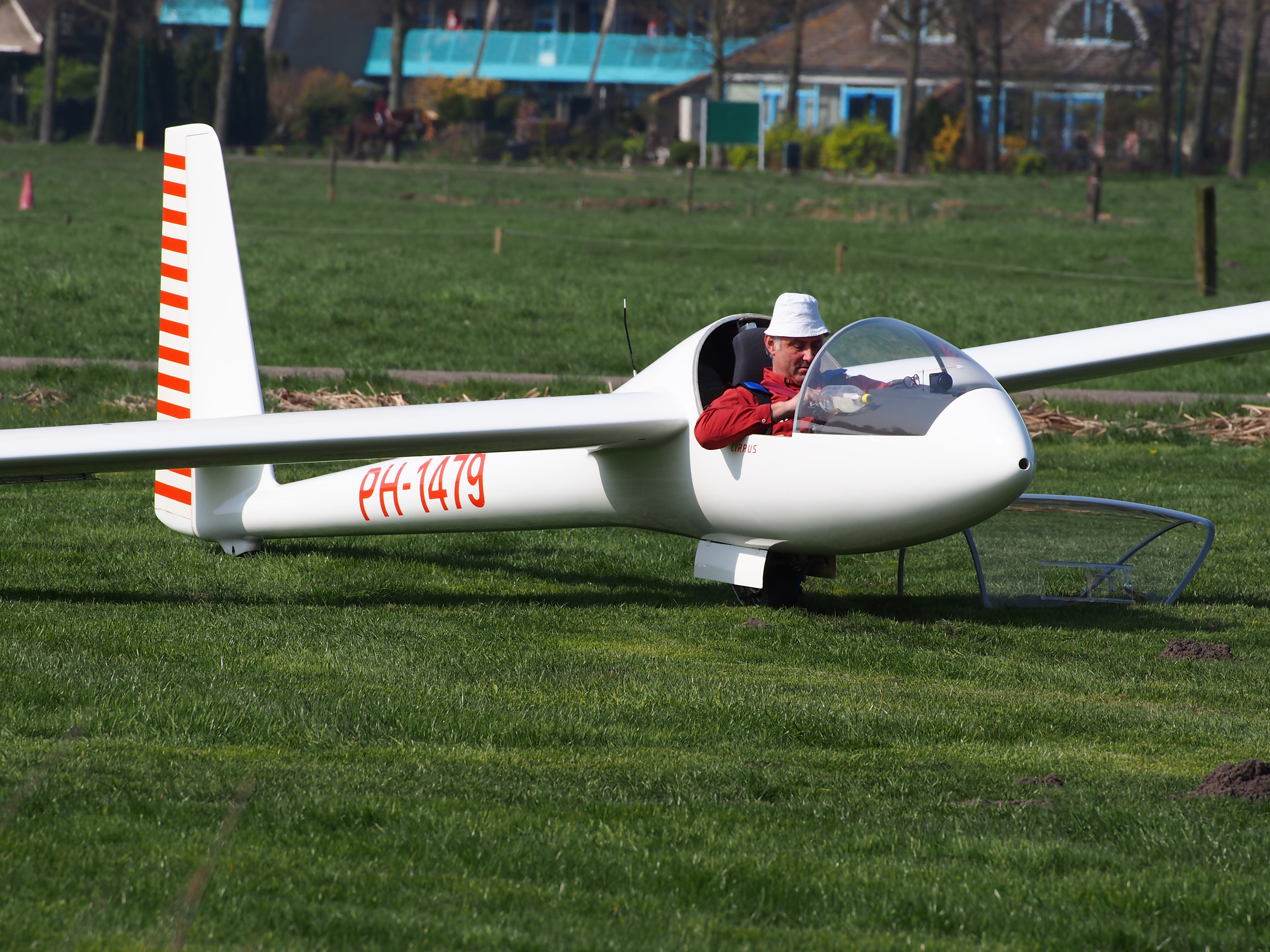 Photographed at Hilversum Airport (ICAO EHHV), The Netherlands.